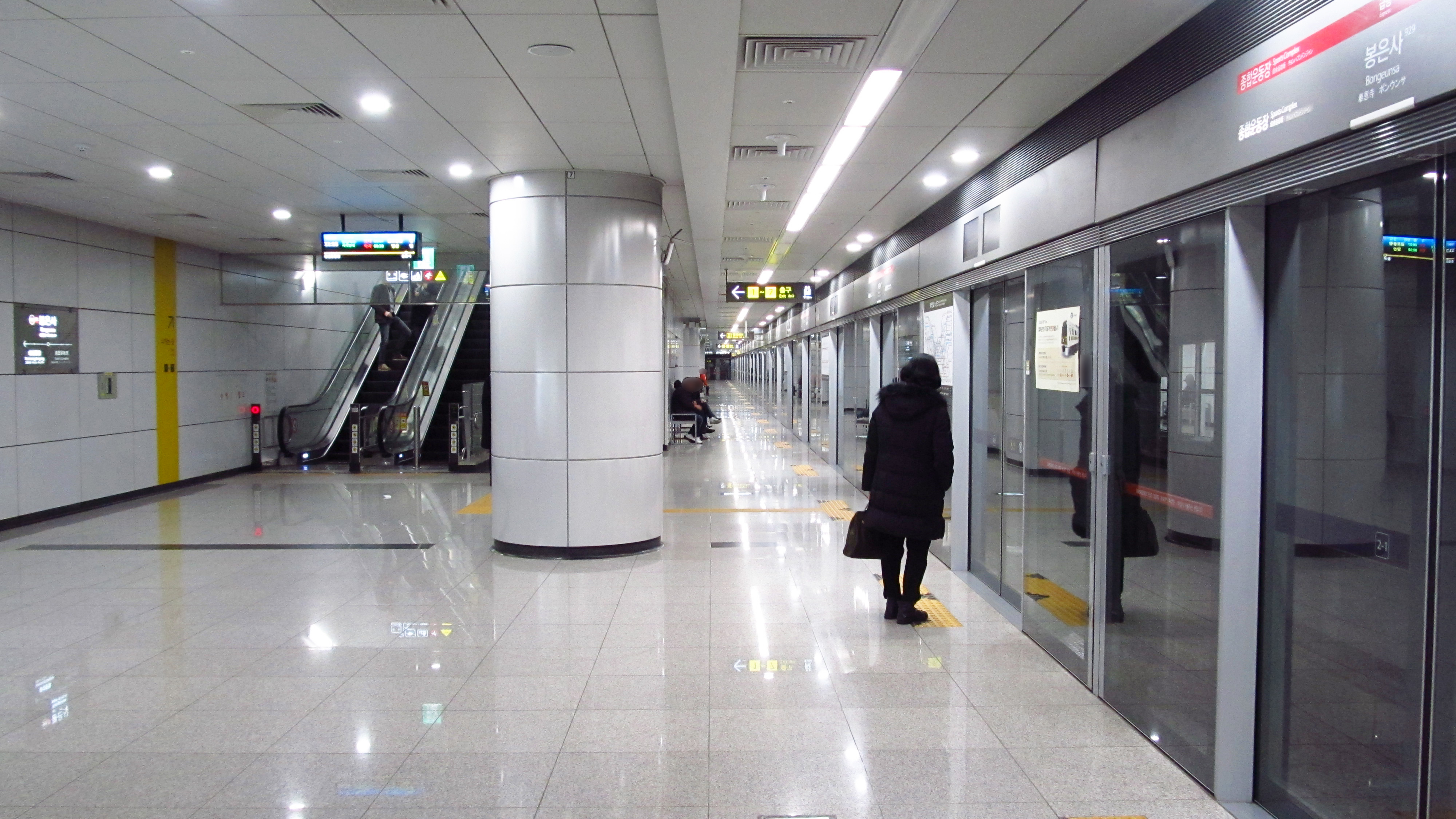 The platform at Bongeunsa Station on Seoul Subway Line 9 in Gangnam-gu, Seoul, Republic of Korea(South Korea)